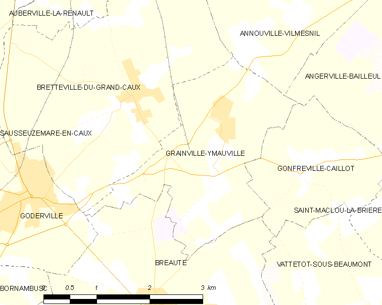 Map of French municipality Grainville-Ymauville